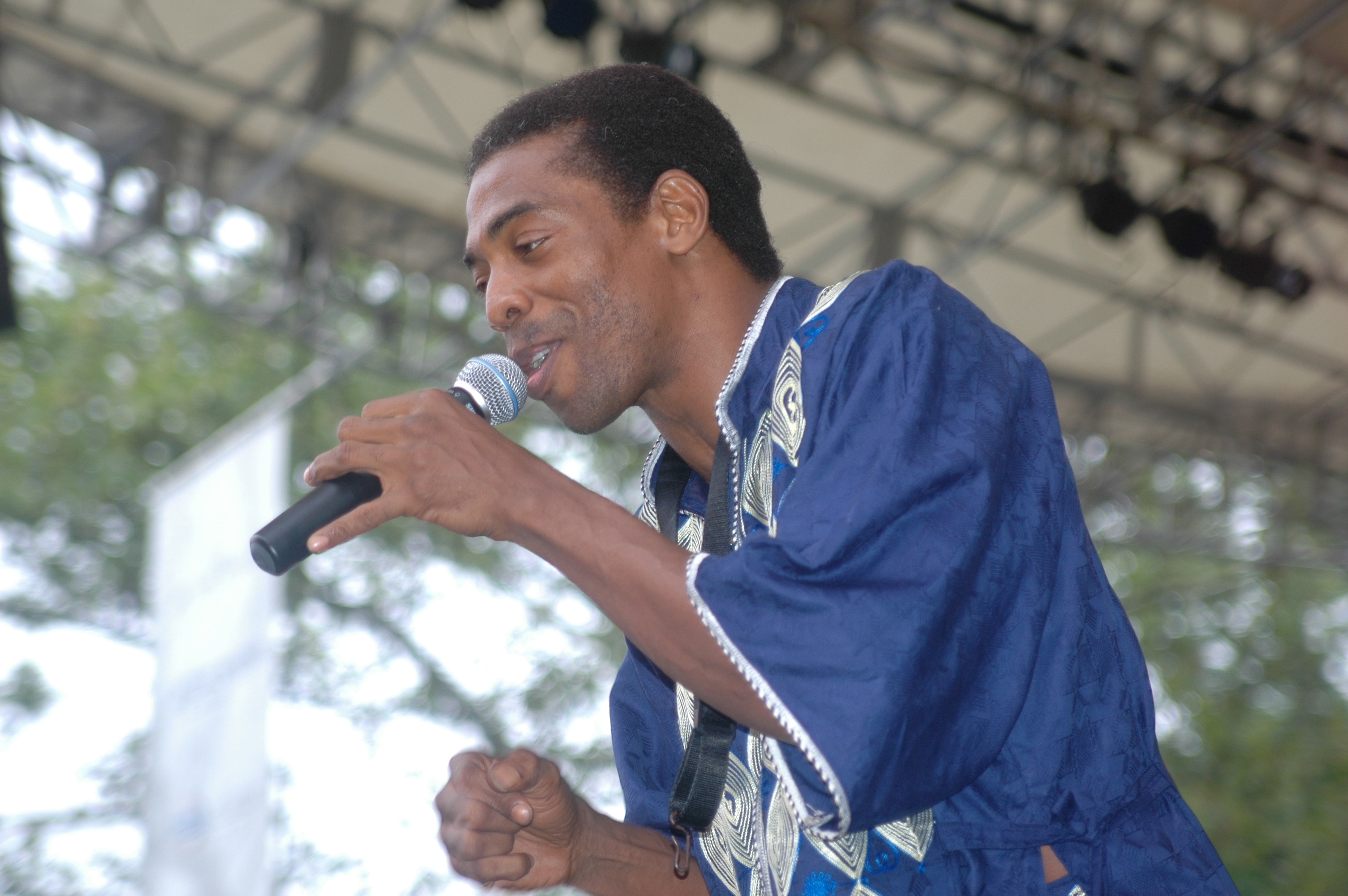 Photo of Femi Kuti performing